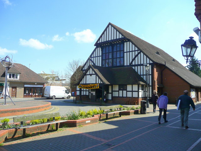 Cranleigh Village Hall Large village? Small town? Nevertheless an impressive 'rustic' 1930's building.